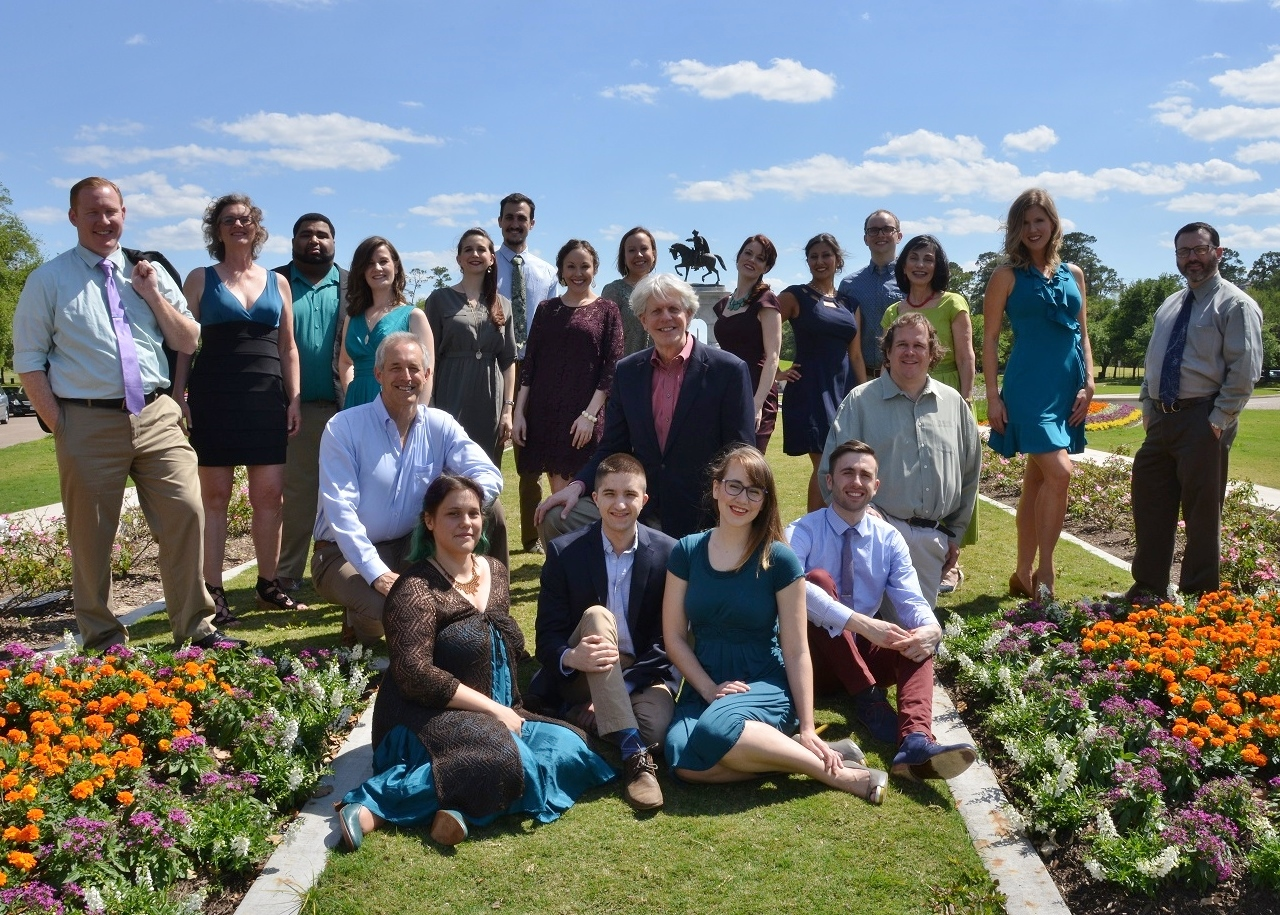 Photo for the 1017-18 Houston Chamber Choir season brochure